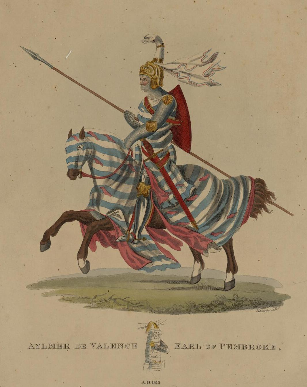 A portrait from the Welsh Portrait Collection at the National Library of Wales. Depicted person: Aymer de Valence, 2nd Earl of Pembroke – English general